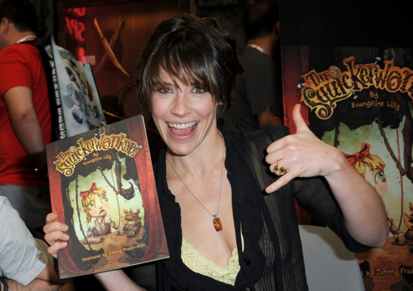 Canadian actress Evangeline Lilly at the 2013 San Diego Comic-Con International, holding a copy of her book The Squickerwonkers.